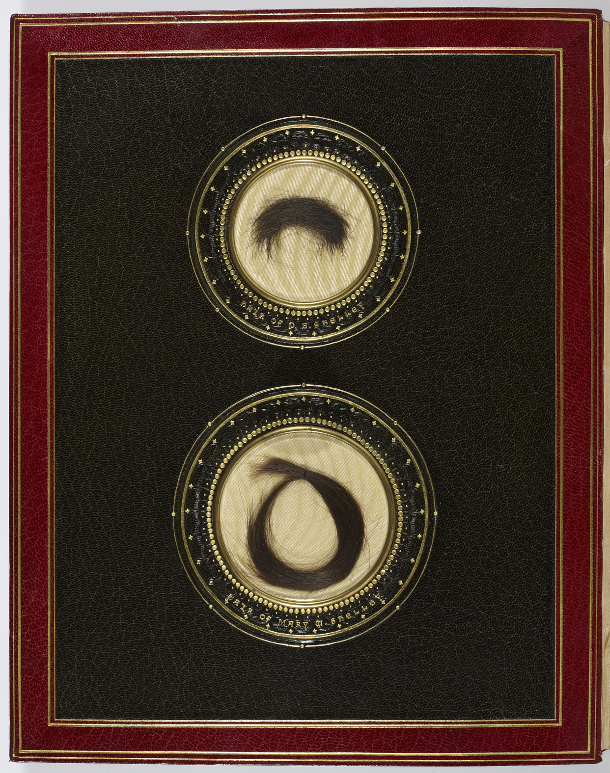 Inside front cover of manuscript Above, a lock of Percy Bysshe Shelley's hair, originally belonging to Jane Clairmont, and later bought by T.J. Wise from Buxton Forman. Below, a lock of Mary Shelley's hair, given by her to E.J. Trelawny, and aquired by T.J. Wise from Willam Rossetti in 1890